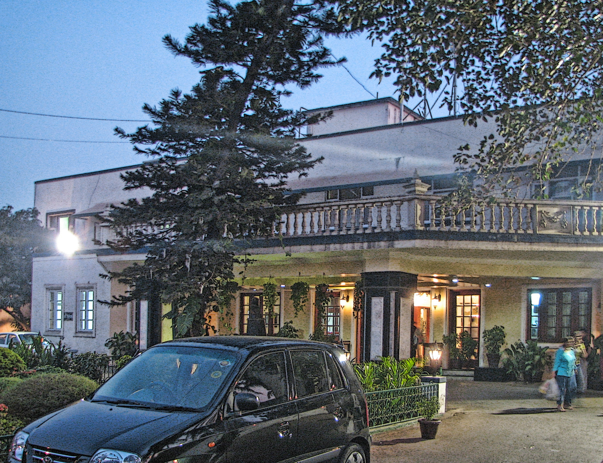 Entrance to the National Sports Club of India, midtown Bombay (Mumbai). Directly opposite Haji Ali Tomb.